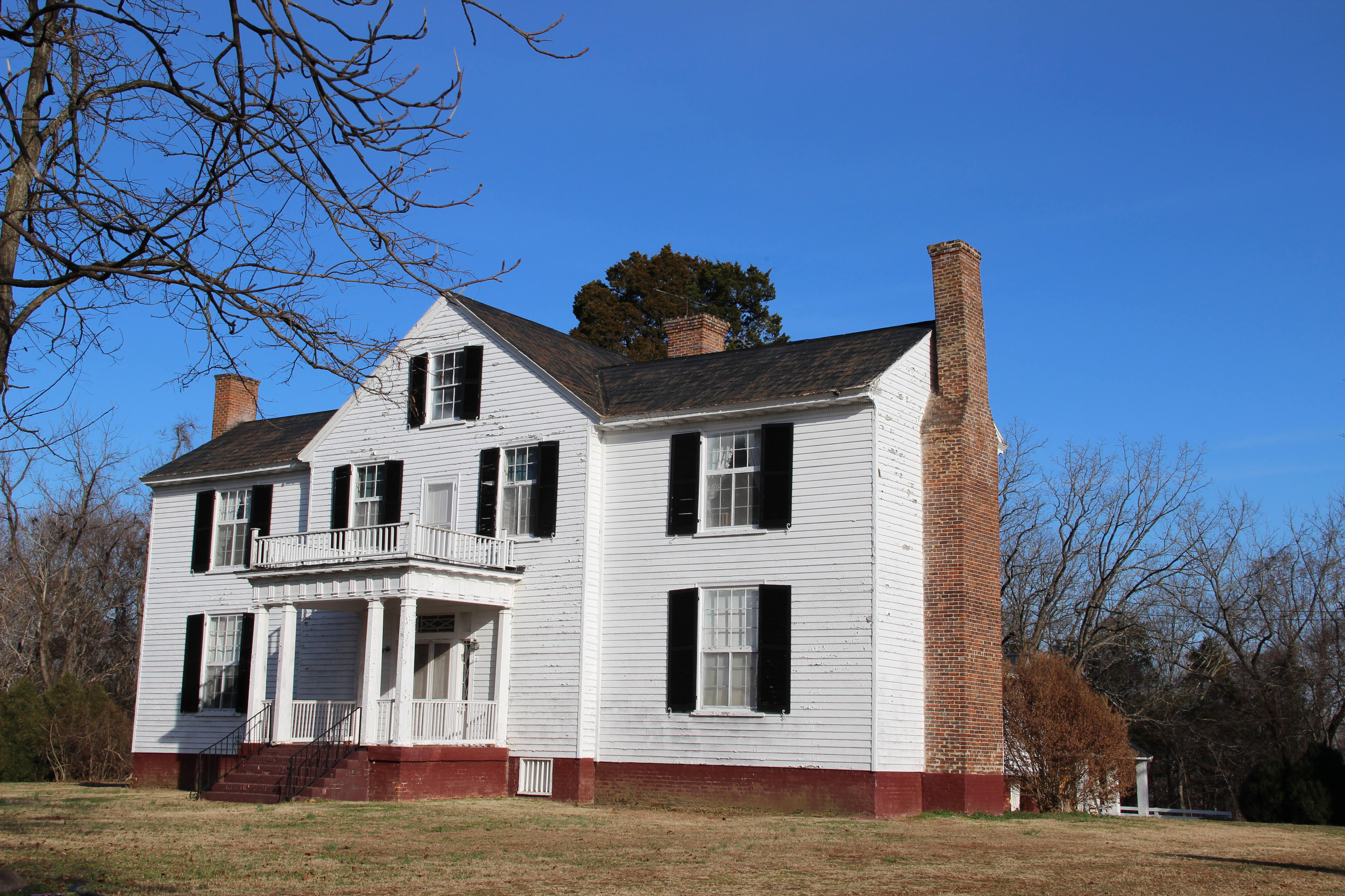 Uploaded by PE 12302014